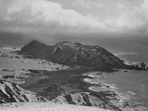 View of Wireless Hill, Macquarie Island, from the south.